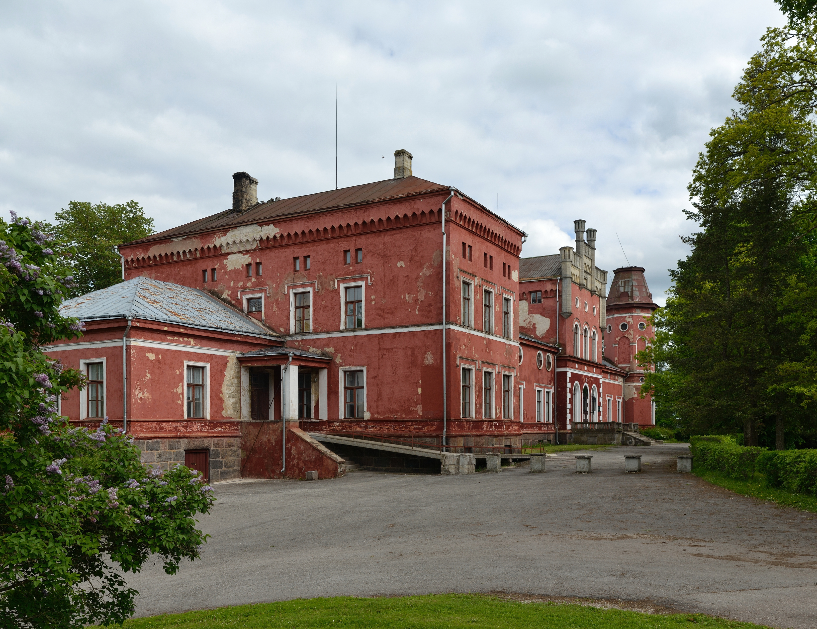 Porkuni manor main building